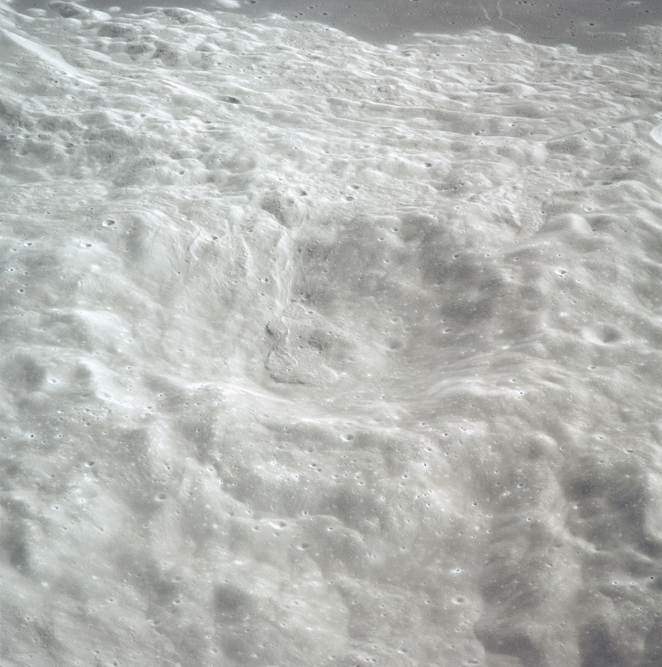 Oblique view of Patsaev Q crater, facing southwest, on the far side of the moon. Tsiolkovskiy crater is in the background, and the rim of Patsaev is in the foreground.